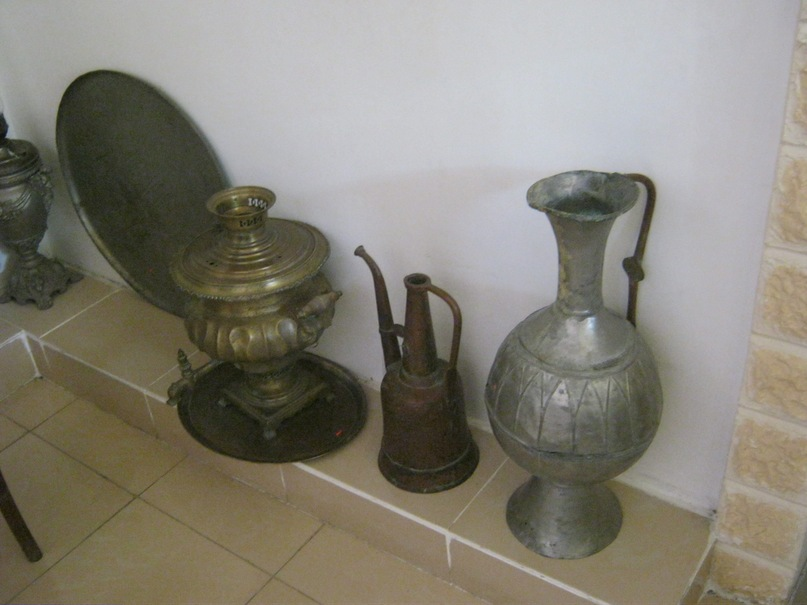 Metal jars for water exhibit in the Local history, culture and geography Museum in Akhty. Dagestan.